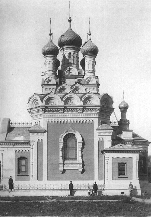 Saint Petersburg (Russia), Moskovsky Avenue.